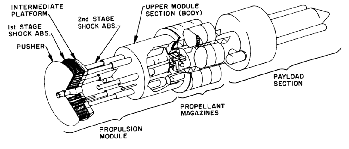 Configuration of the notional Project Orion spacecraft. NASA - Public Domain.